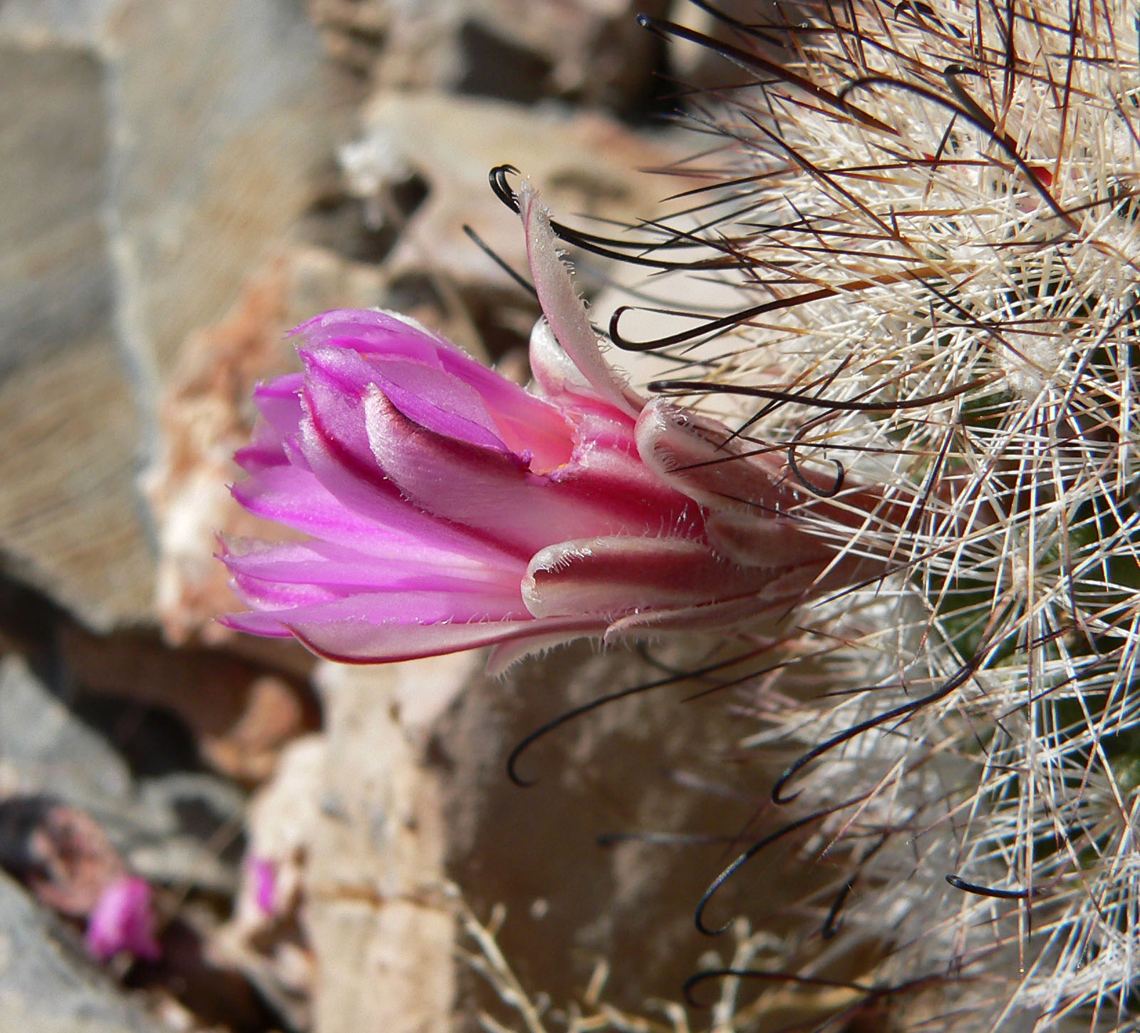 Mammillaria tetrancistra near Devils Hole, Death Valley National Park / Ash Meadows National Wildlife Refuge, southern Nevada